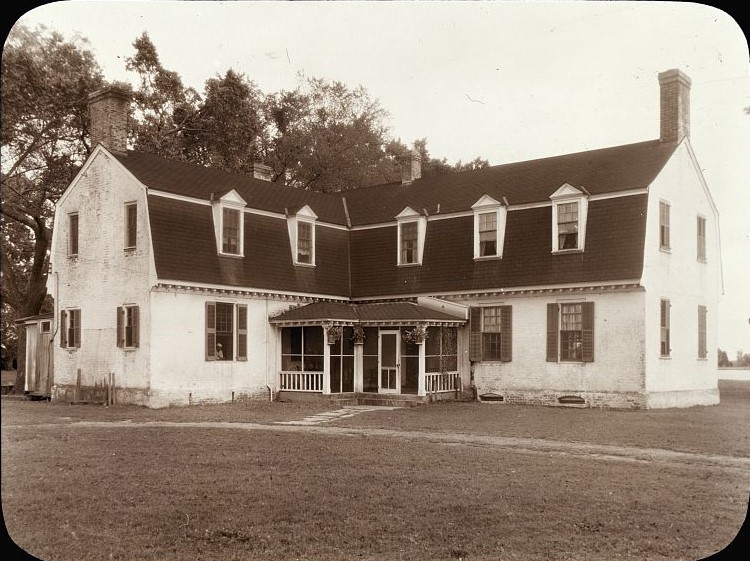 Title [Toddsbury, Nuttal vicinity, Gloucester County, Virginia. Entrance] Contributor Names Johnston, Frances Benjamin, 1864-1952, photographer Created / Published [1935] Subject Headings - Houses--Virginia--Gloucester County--1930-1940 - Porches--Virginia--Gloucester County--1930-1940 - Gambrel roofs--Virginia--Gloucester County--1930-1940 Format Headings Lantern slides--1930-1940. Notes - Site History. Other: Also known as William Mott House. - On slide (handwritten): "Toddsbury." - Slide for lecturing on "Tales Old Houses Tell." - Title and date based on same image in the Carnegie Survey of the Architecture of the South, LC-J7-VA-1815, with additional information from Sam Watters, 2011. - Forms part of: Garden and historic house lecture series in the Frances Benjamin Johnston Collection (Library of Congress). - Formerly in Box 31. Medium 1 photograph : glass lantern slide, sepia-toned ; 3.25 x 4 in. Call Number/Physical Location LC-J717-X106- 51 [P&P] Repository Library of Congress Prints and Photographs Division Washington, D.C. 20540 USA Digital Id ppmsca 16621 //hdl.loc.gov/loc.pnp/ppmsca.16621 Library of Congress Control Number 2008675921 Reproduction Number LC-DIG-ppmsca-16621 (digital file from original item) Rights Advisory No known restrictions on publication. Online Format image Description 1 photograph : glass lantern slide, sepia-toned ; 3.25 x 4 in. LCCN Permalink